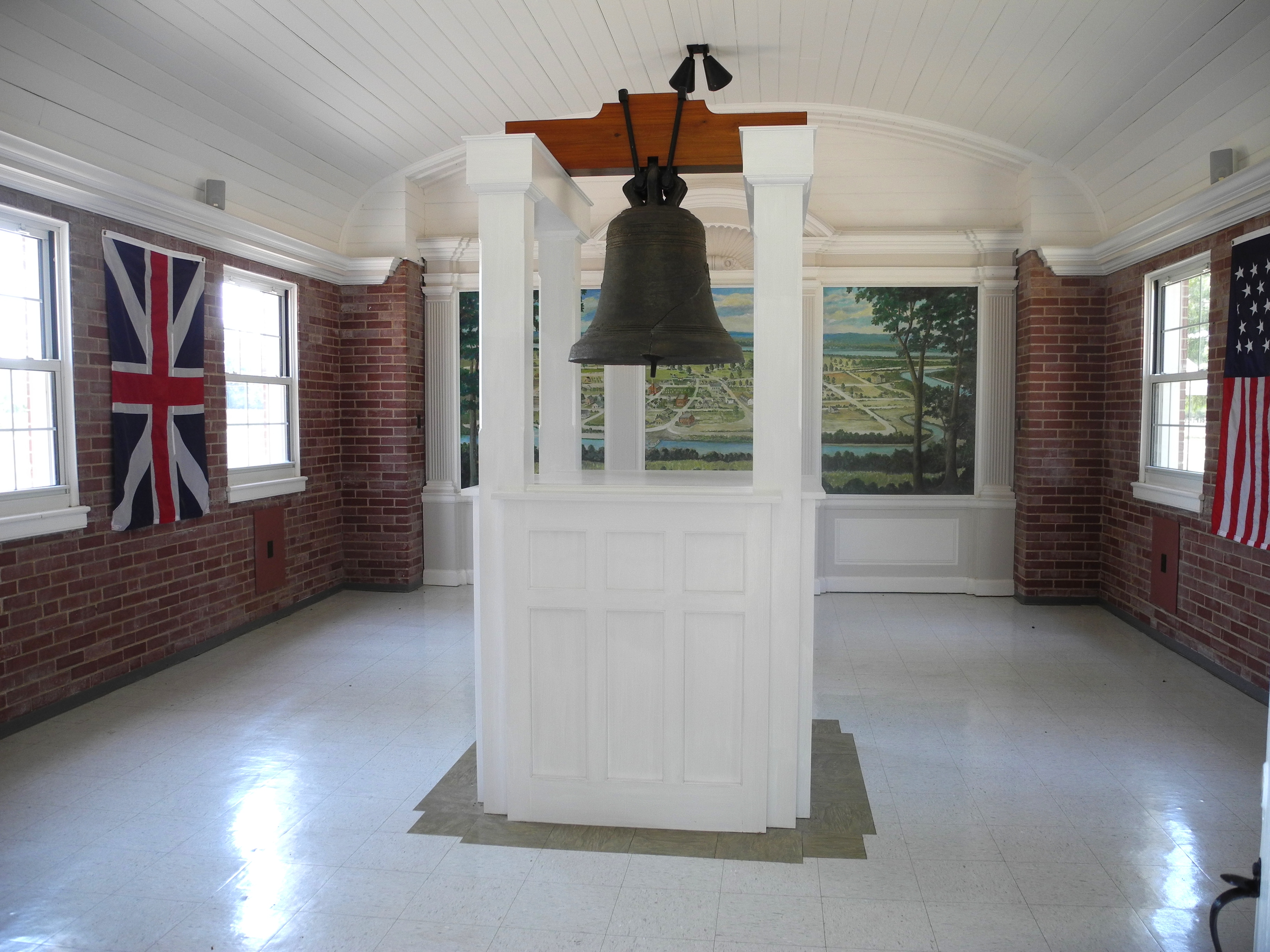 This bell, known as The Liberty Bell of the West, was rung in Kaskaskia, Illinois to celebrate its liberation on July 4, 1778, from the British by American Colonel George Rogers Clark.[1] It was cast in 1741 by Louis XV of France as a gift to the Catholic Church of the Illinois Country.